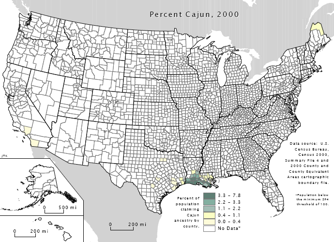 Diagram indicating Cajun settlement in the United States. Image as based on the census 2000 by the U.S. Census Bureau. Badagnani (talk) 07:51, 23 May 2009 (UTC)